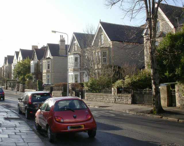 Stanwell Road, Penarth, Vale of Glamorgan - houses on the north side of the road